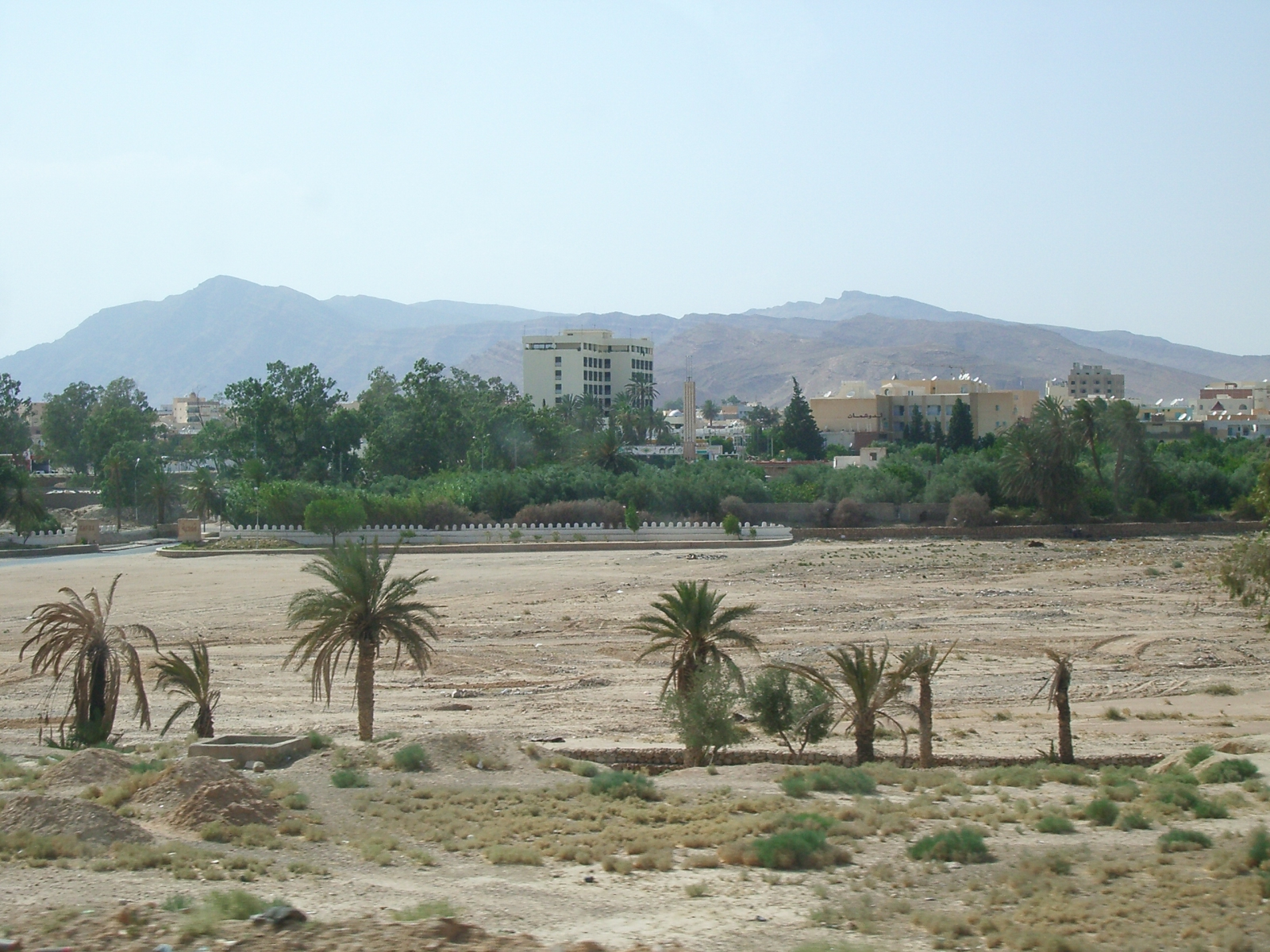 Gafsa rodalies